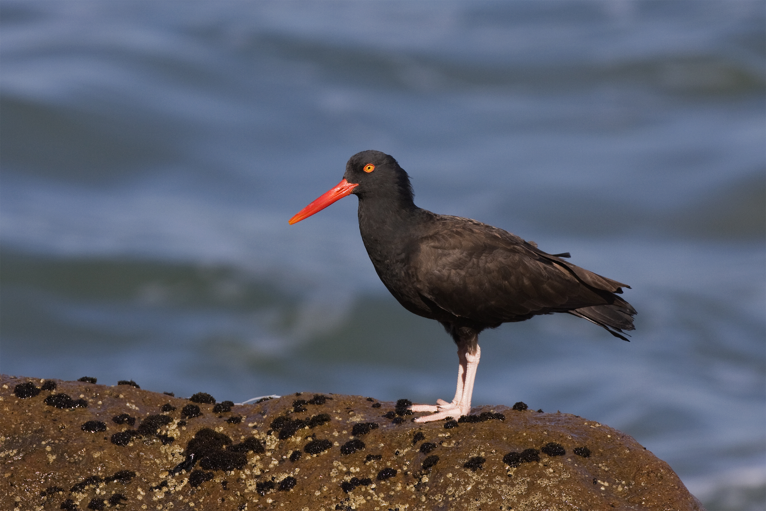 Black Oystercatcher (Haematopus bachmani) at Morro Rock, State Beach Side. Sunny day this day.